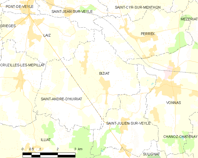 Map of French commune: Biziat Map commune FR insee code 01046.png